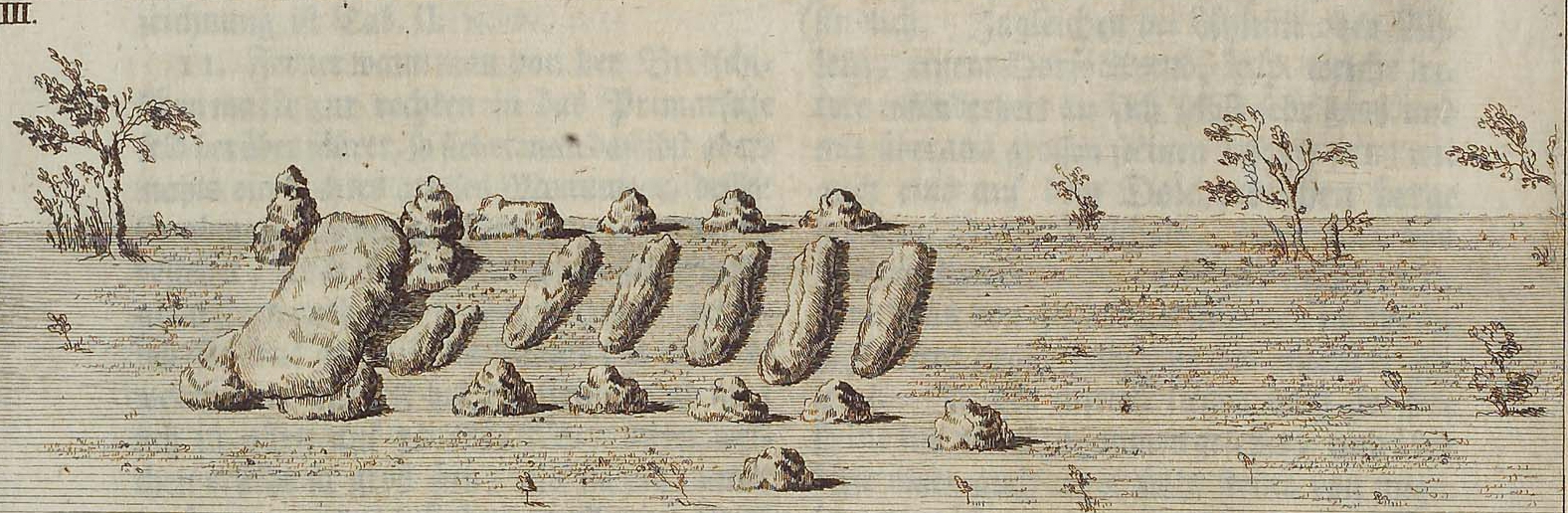 Now destroyed Dolmen at Hassel, depicted in Johann Christoph Bekmann, Bernhard Ludwig Bekmann: Historische Beschreibung der Chur und Mark Brandenburg nach ihrem Ursprung, Einwohnern, Natürlichen Beschaffenheit, Gewässer, Landschaften, Stäten, Geistlichen Stiftern etc. [...]. Vol. 1, Berlin 1751